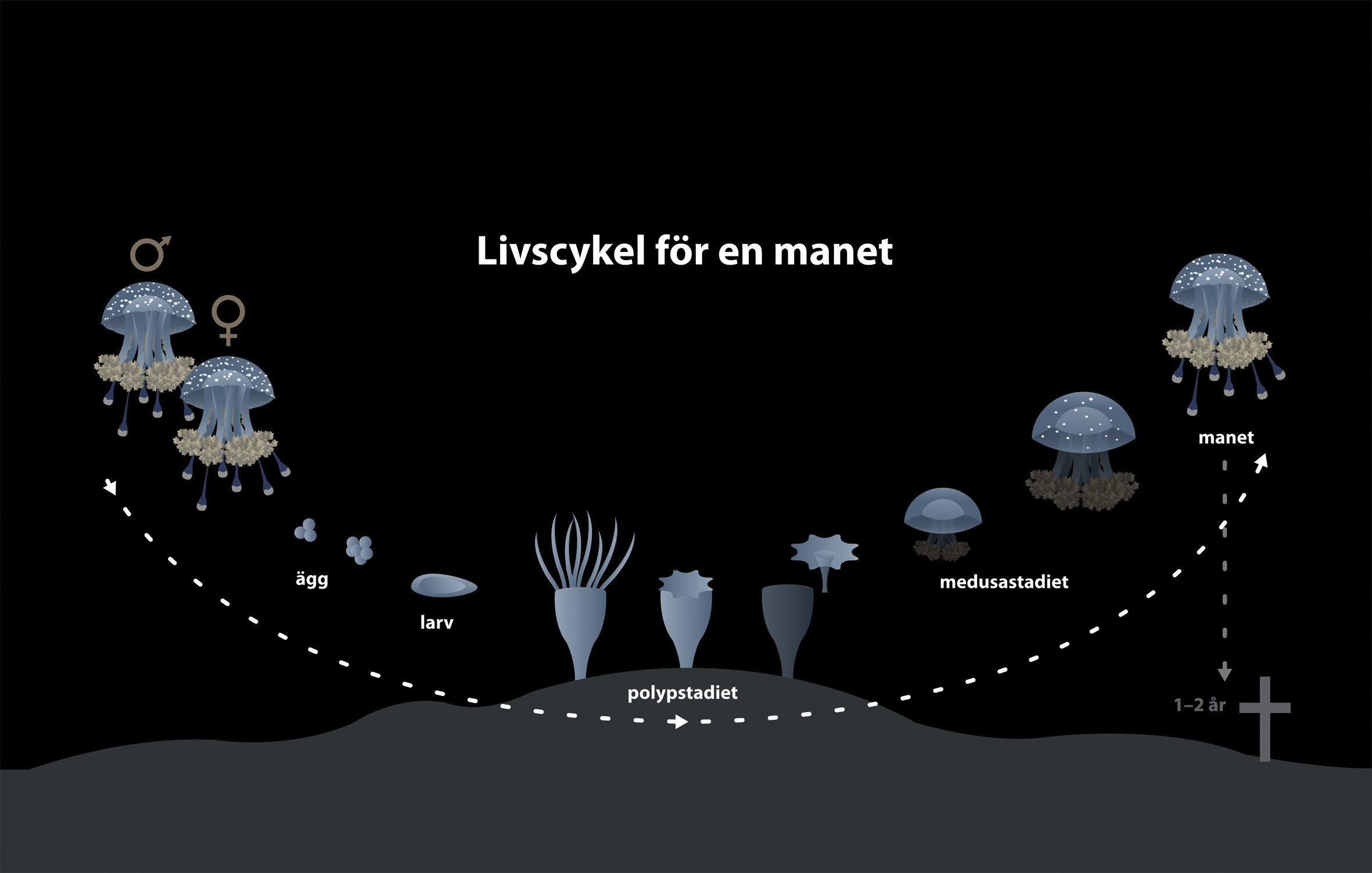 Maneters livscykel